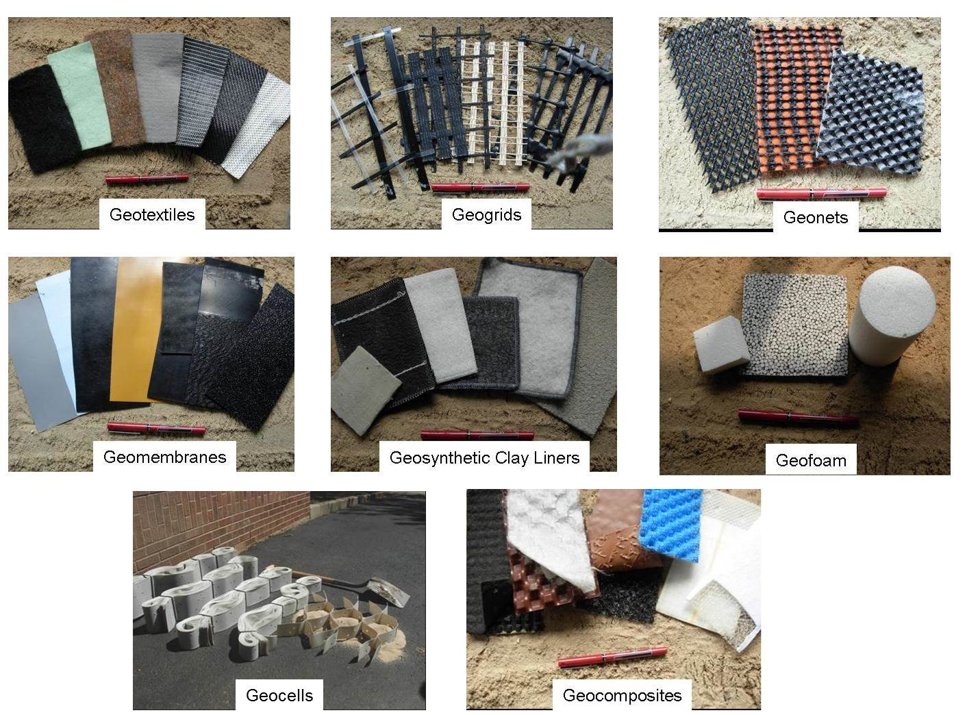 Collage of geosynthetic products